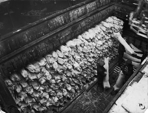 Reproduction ID: H3859 Maker: Unknown Date: April 1938